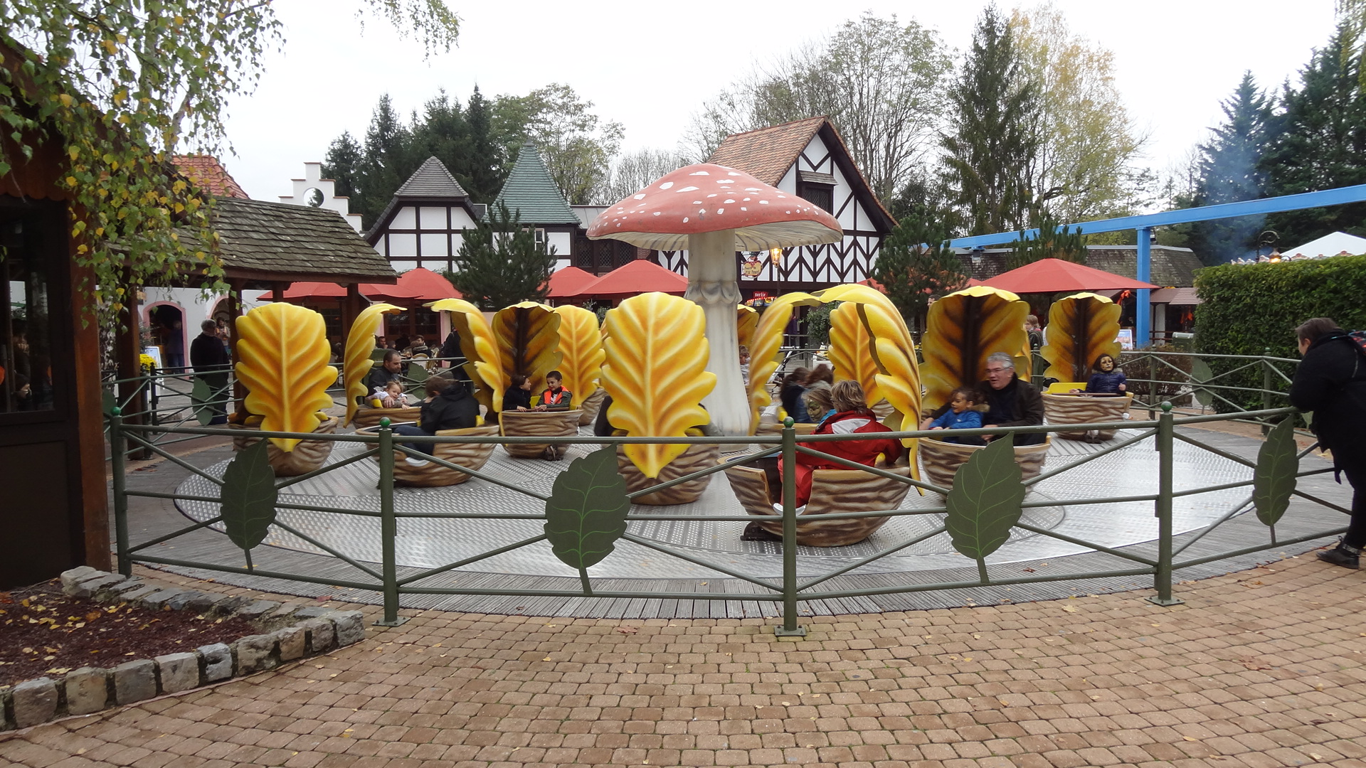 P'tit Poucet